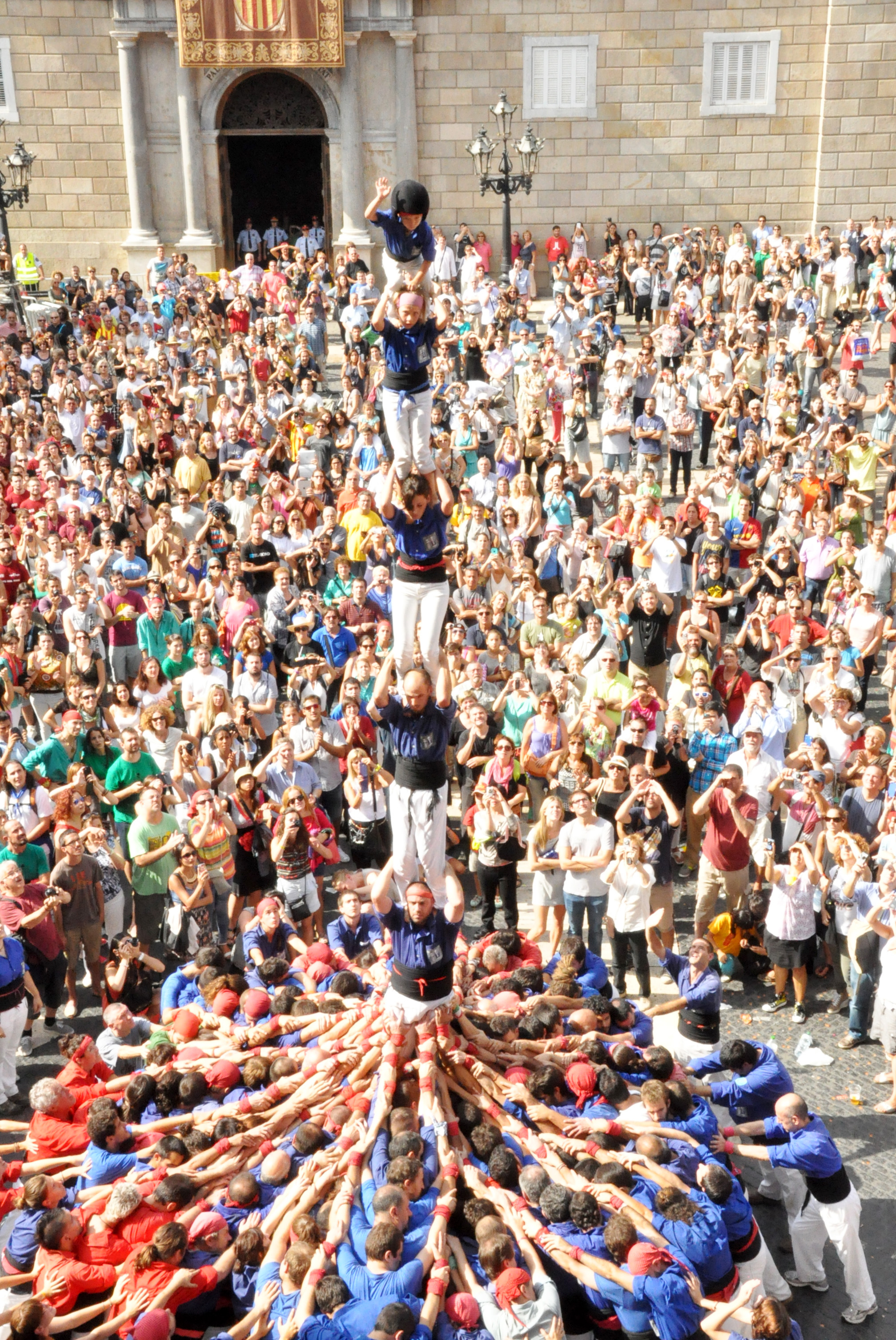 First p6 fulfilled by Castellers de la Vila de Gràcia (Barcelona).